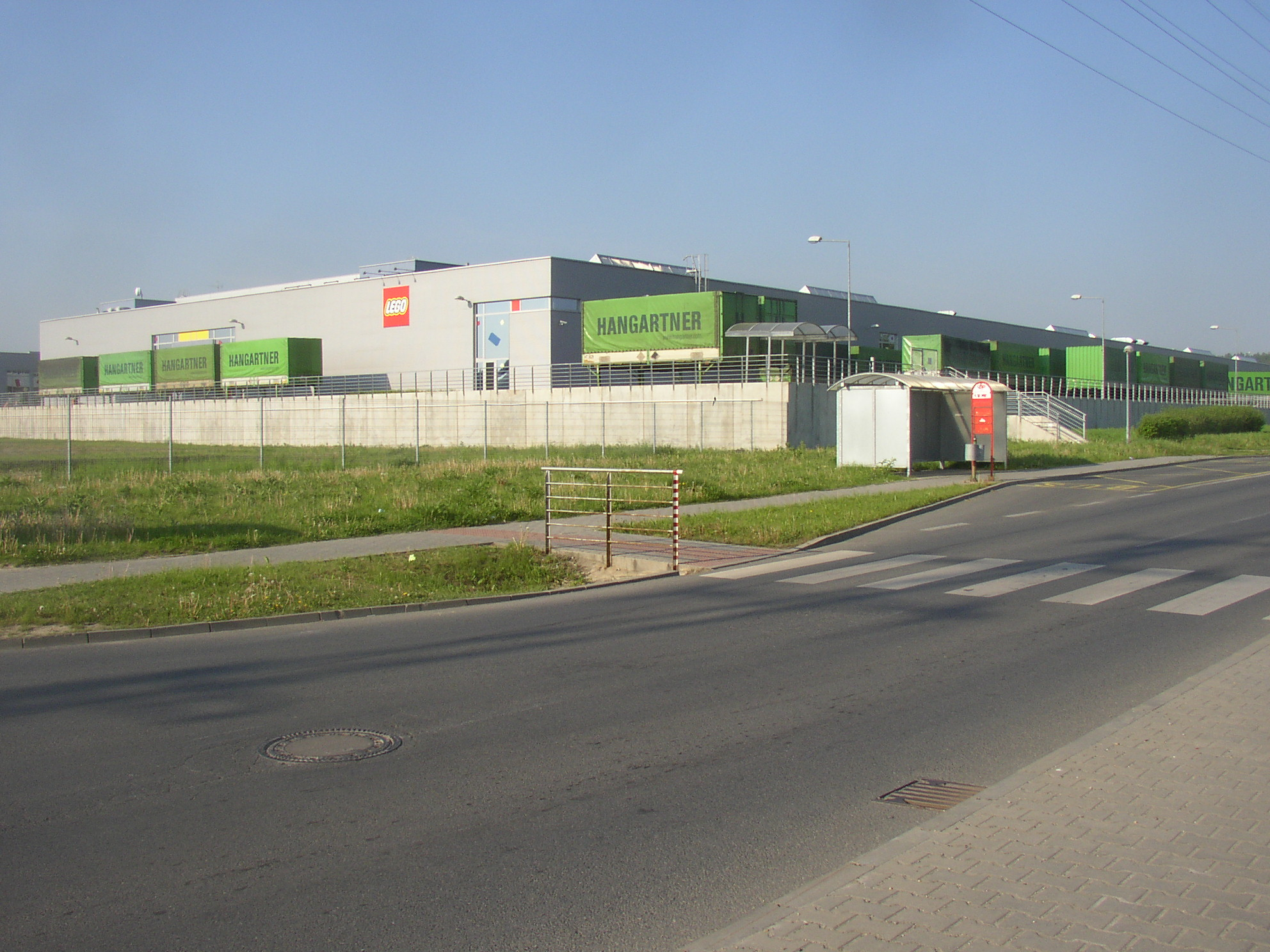 Factory of the LEGO Group company, one of four sites in the world where LEGO toys are nanufactured, Kladno, Czech Republic. Partial view from notheast.